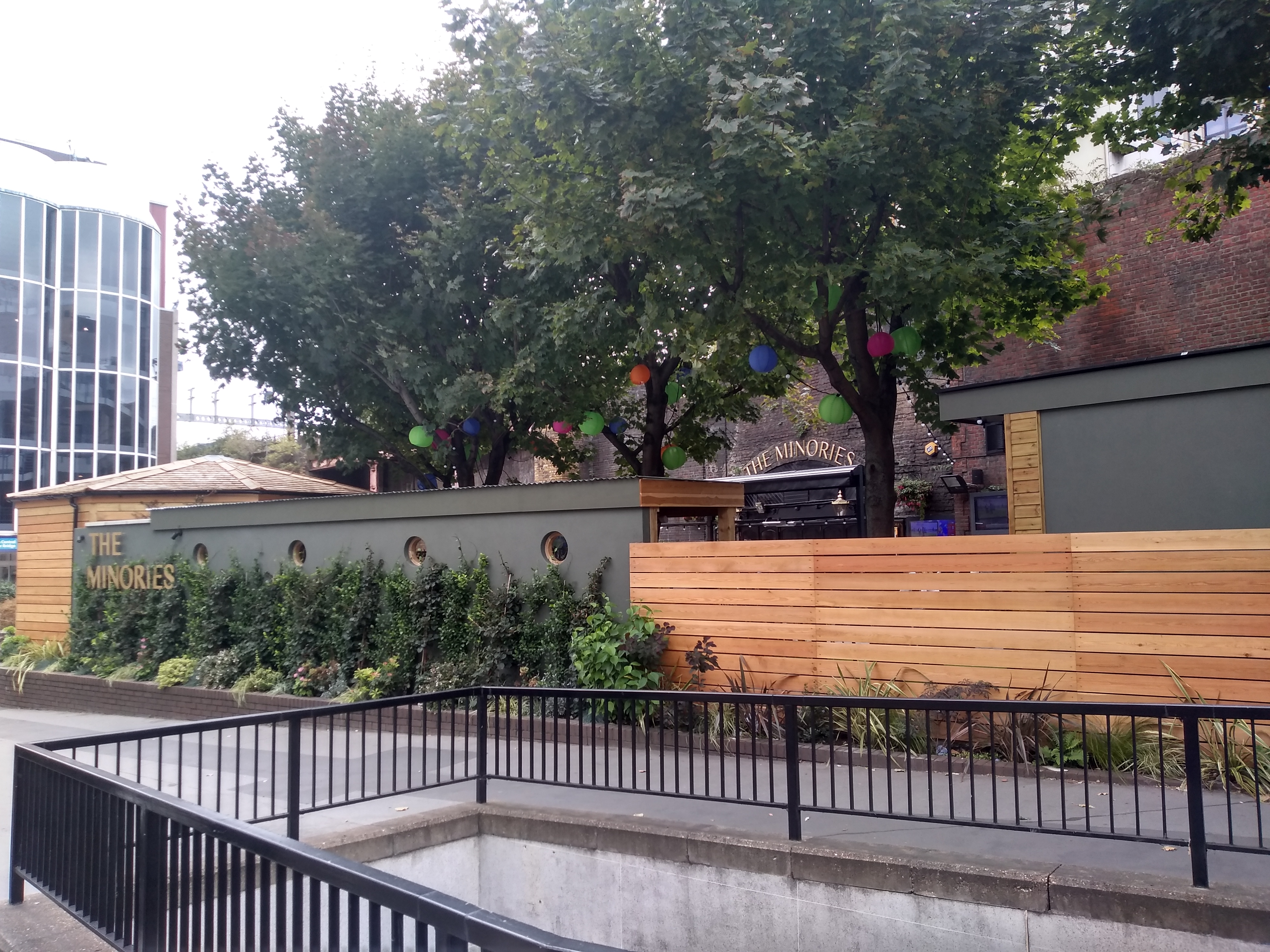 Bar and Nightclub near the Tower of London